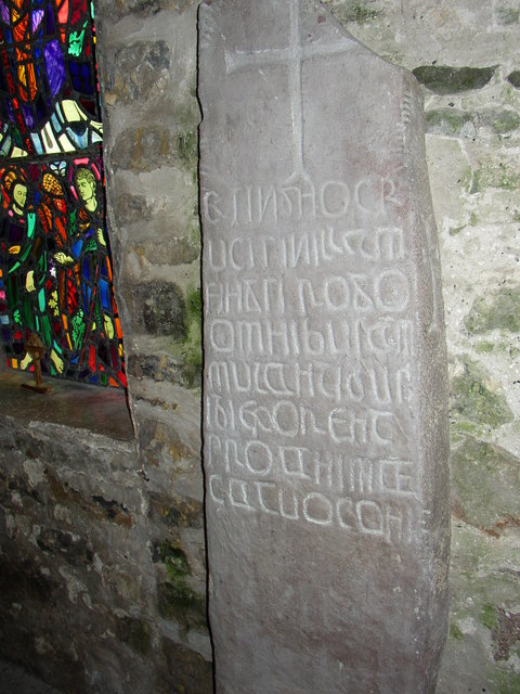 The Caldey Stone, Caldey Island The stone has two inscriptions. The first, incomplete, is in Ogham characters, ie notches cut into the edge of the stone. It is from the 6C, and has been translated as ”MAGI DUBR...”. The second is in Latin, of the 6C or 7C, and there are two different interpretations of the inscription, but both end: “I ask all who walk in this place to pray for the soul of Cadwgan” (Catuoconus in Latin). – Exact description of the Caldey Stone.